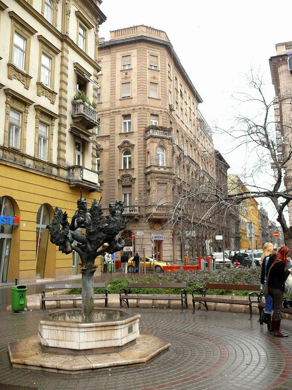 The Erzsébet Boulevard in Budapest